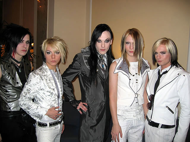 Cinema Bizarre in Hamburg; Day of the Eurovision Song Contest national final rehearsal, Hotel Reichshof. People: Yu, Kiro, Luminor, Shin, Strify (from left)